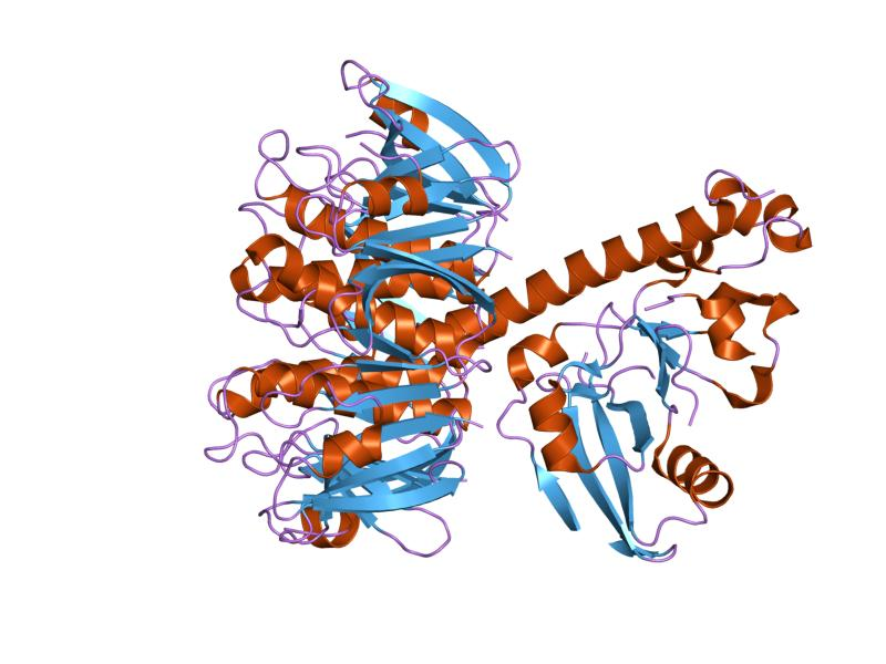 Cartoon representation of the molecular structure of protein registered with 1s5b code.